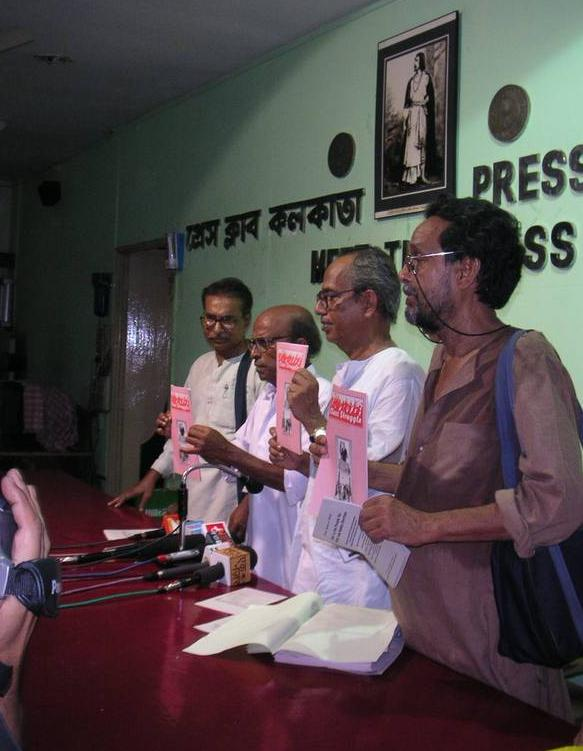 CPI(ML) press conference in Kolkata ahead of the 2004 Lok Sabha elections. Second from left is Kanu Sanyal, party general secretary. Photo: Soman